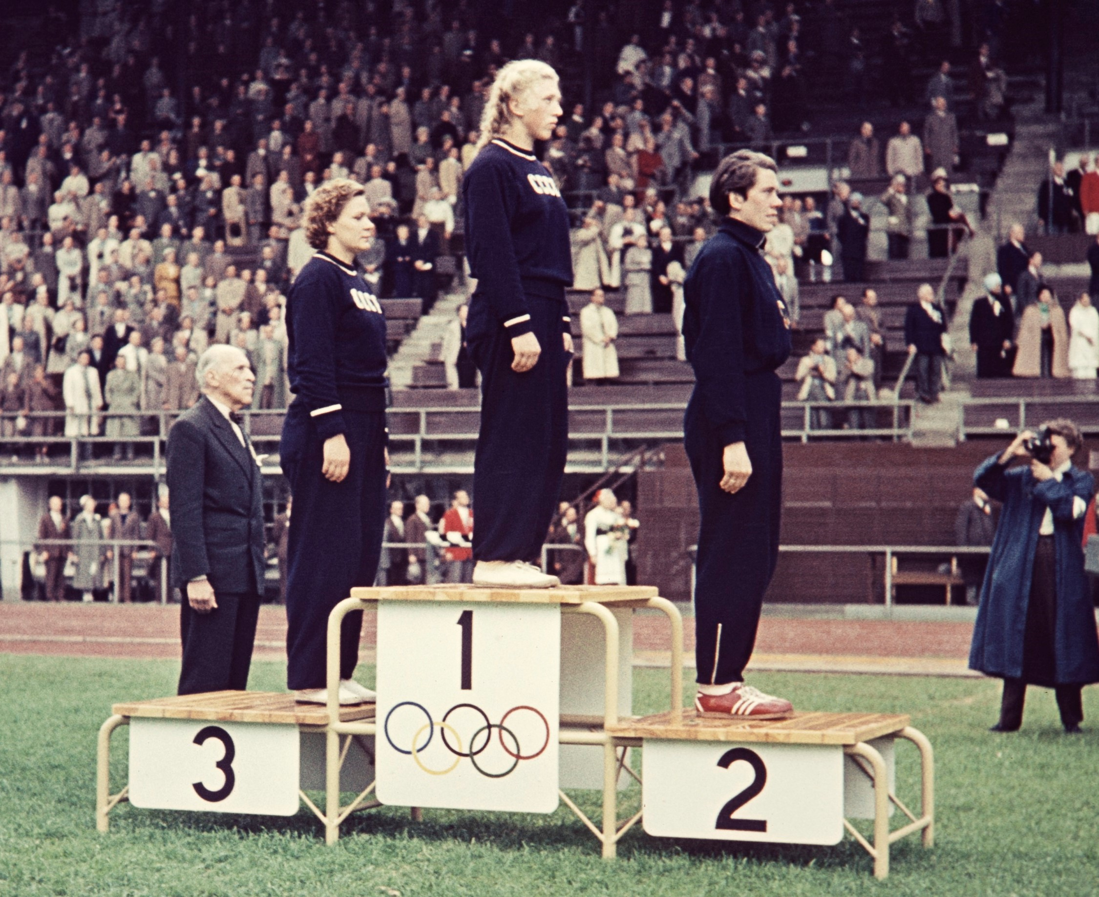 Klavdiya Tochonova, Galina Zybina, Marianne Werner in 1952.